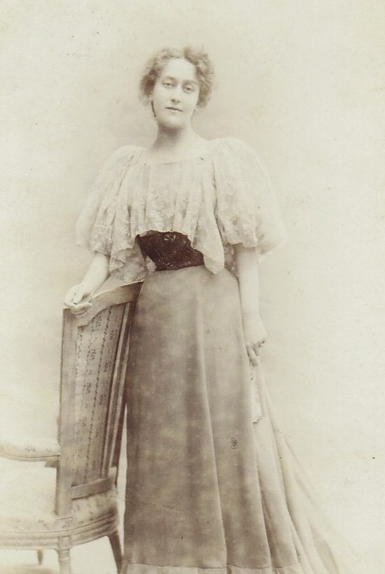 Portrait of Dora Charlotte Dorian (1875-1951), wife of Georges Charles Victor Hugo